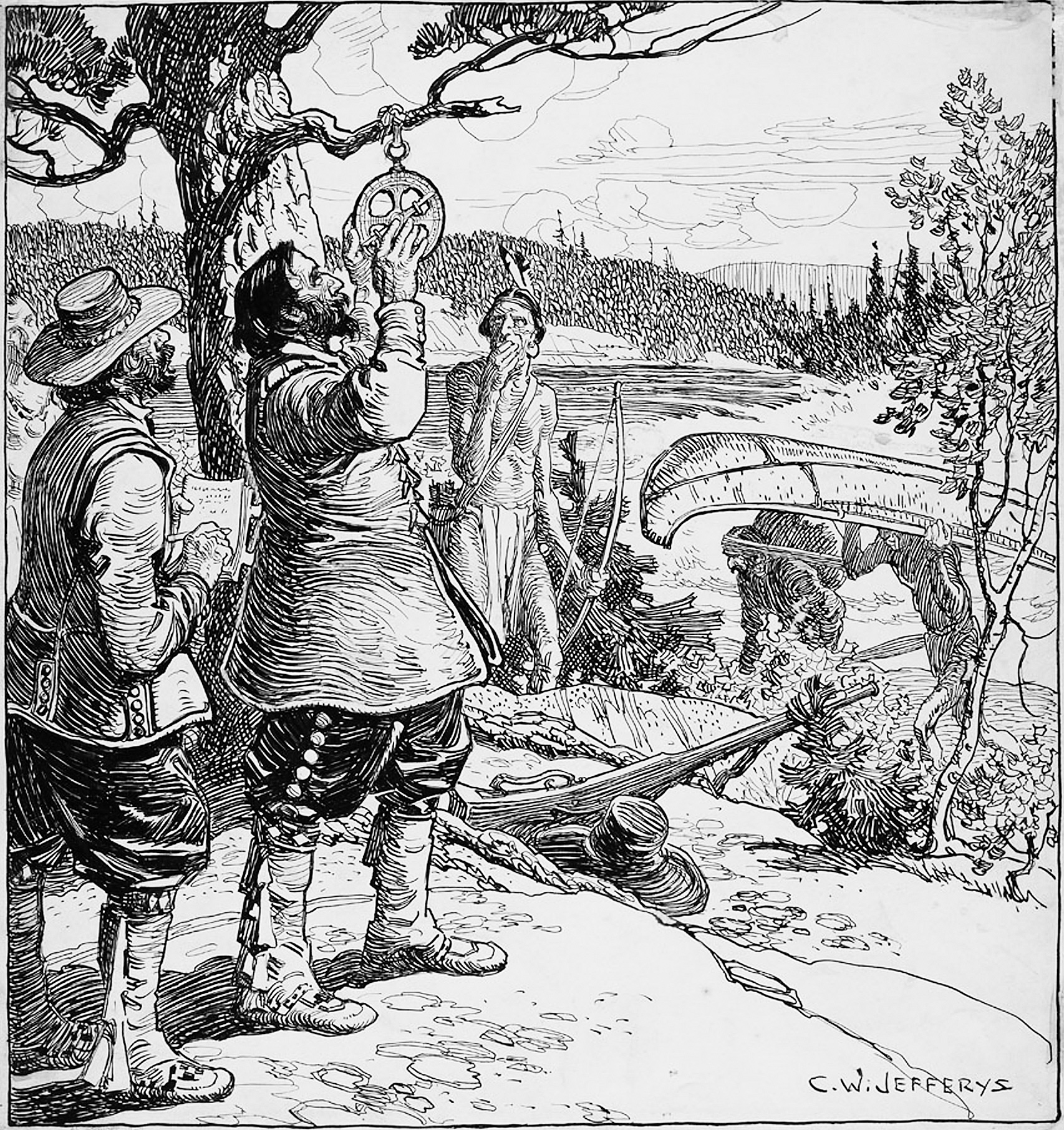 Champlain with Astrolabe on the West Bank of Ottawa River, 1613. Credit: Library and Archives Canada, Acc. No. 1972-26-84